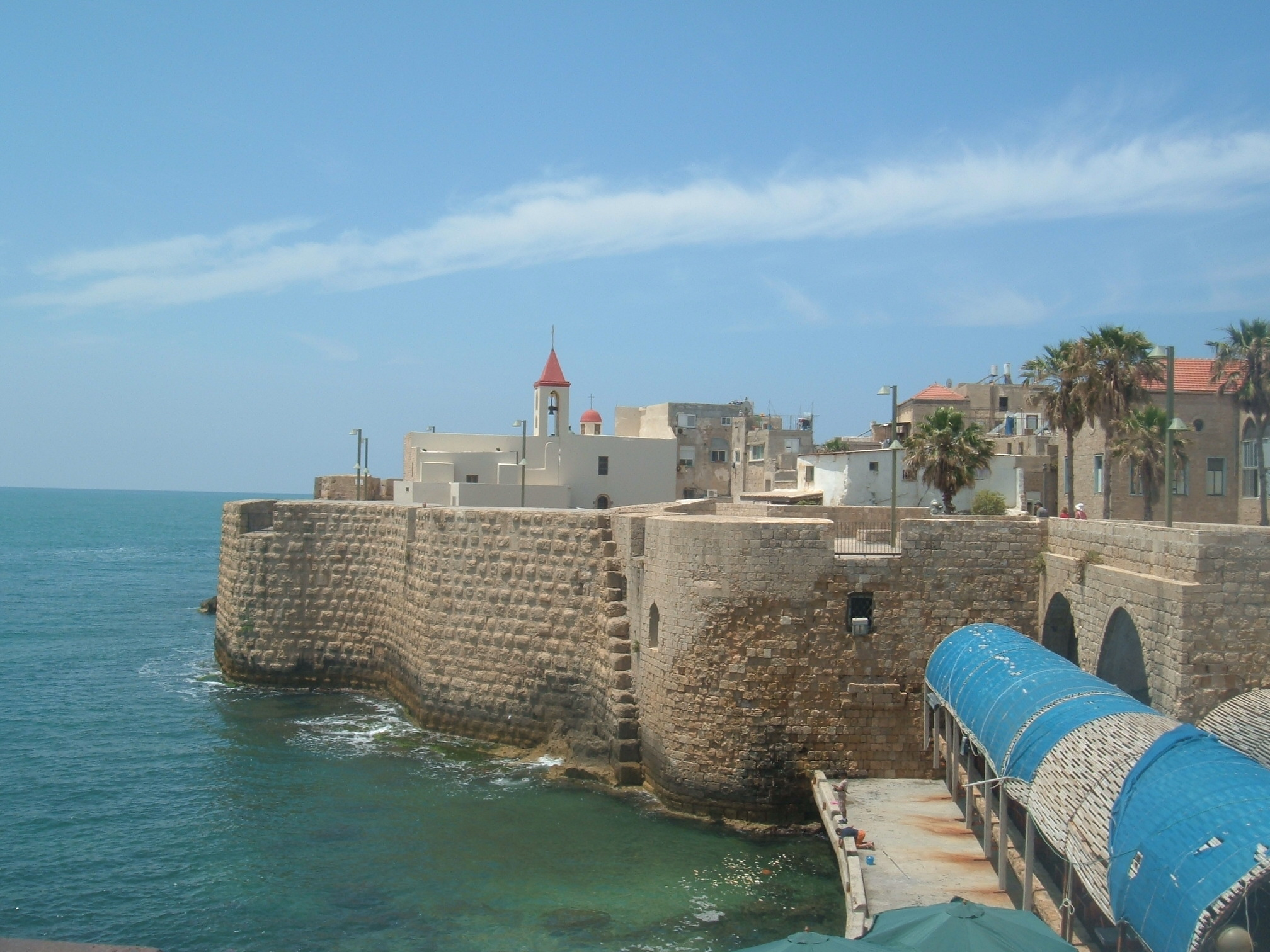 pizani harbour walls and st. john's church in Acre, israel.